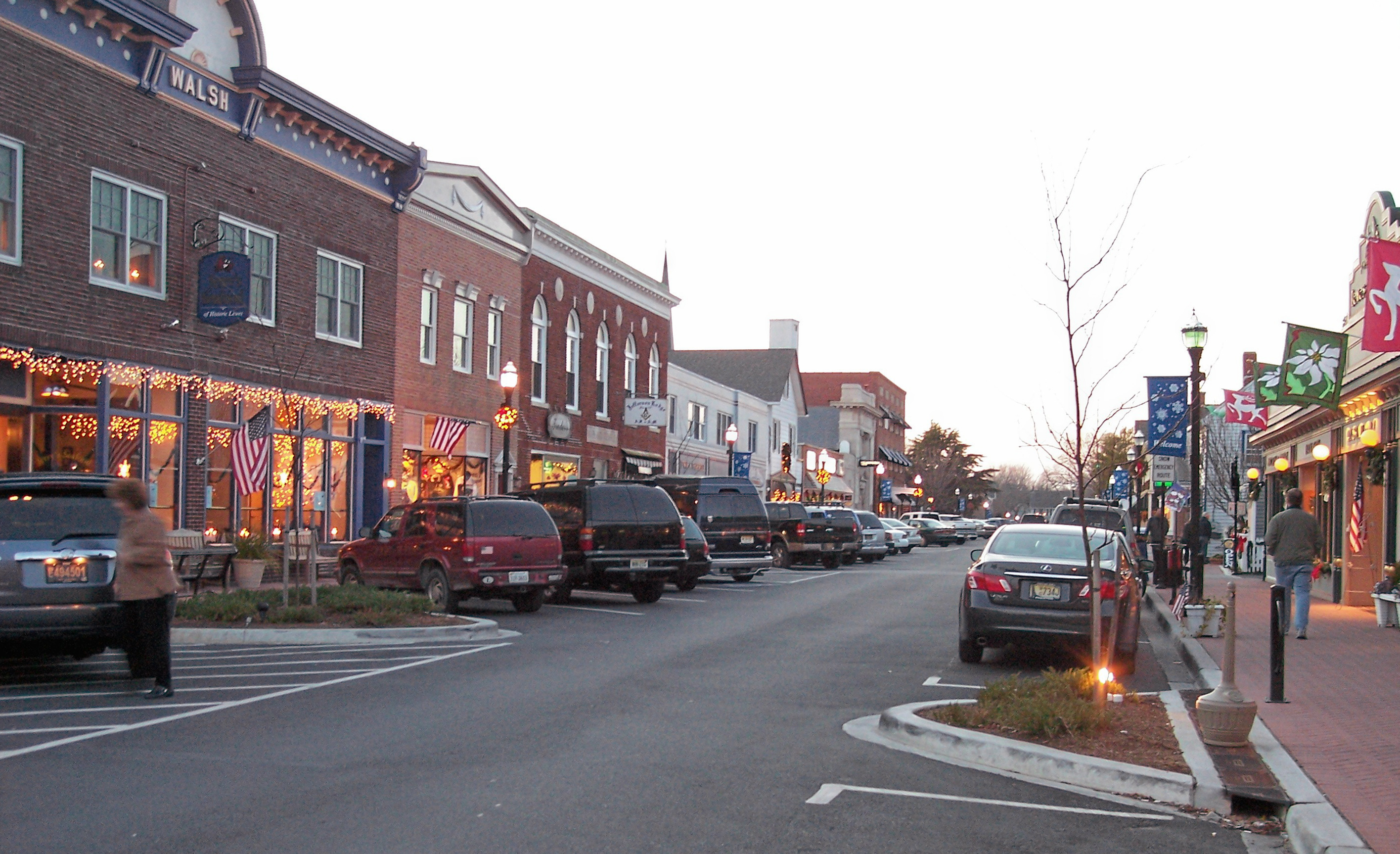 2nd Street in downtown Lewes, Delaware